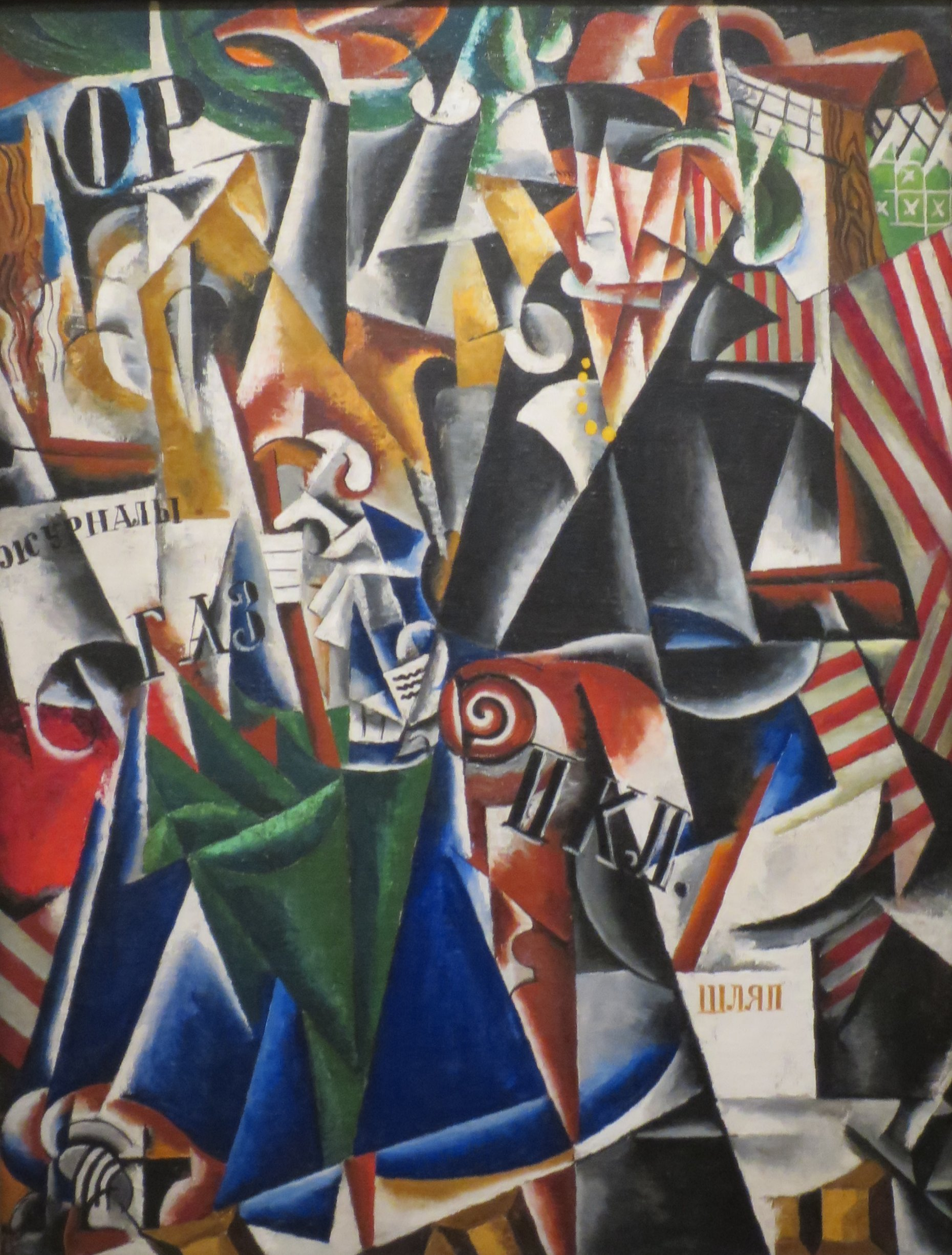 The Traveler by Liubov Popova, 1915, oil on canvas, Norton Simon Museum